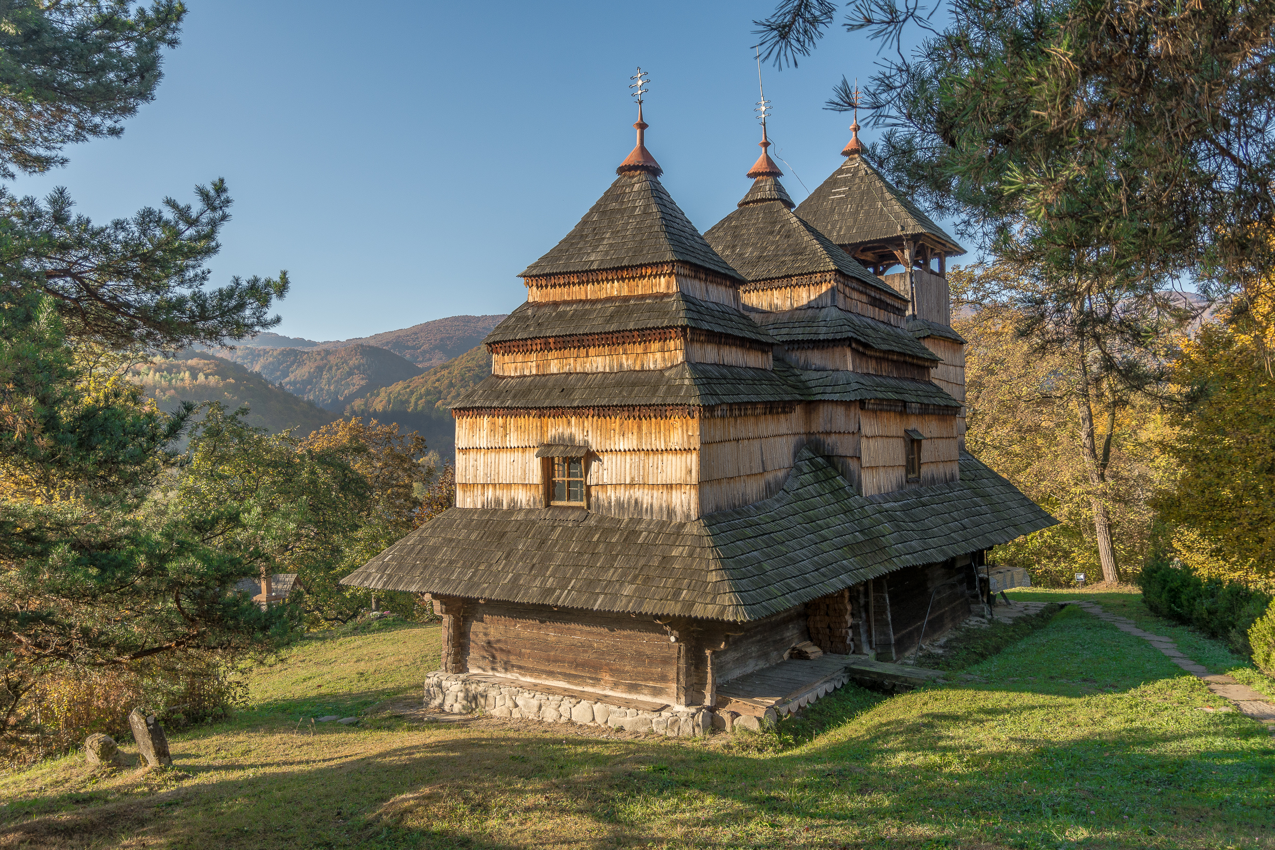 Church of the Intercession, Kostryna, Zakarpattia Oblast, Ukraine